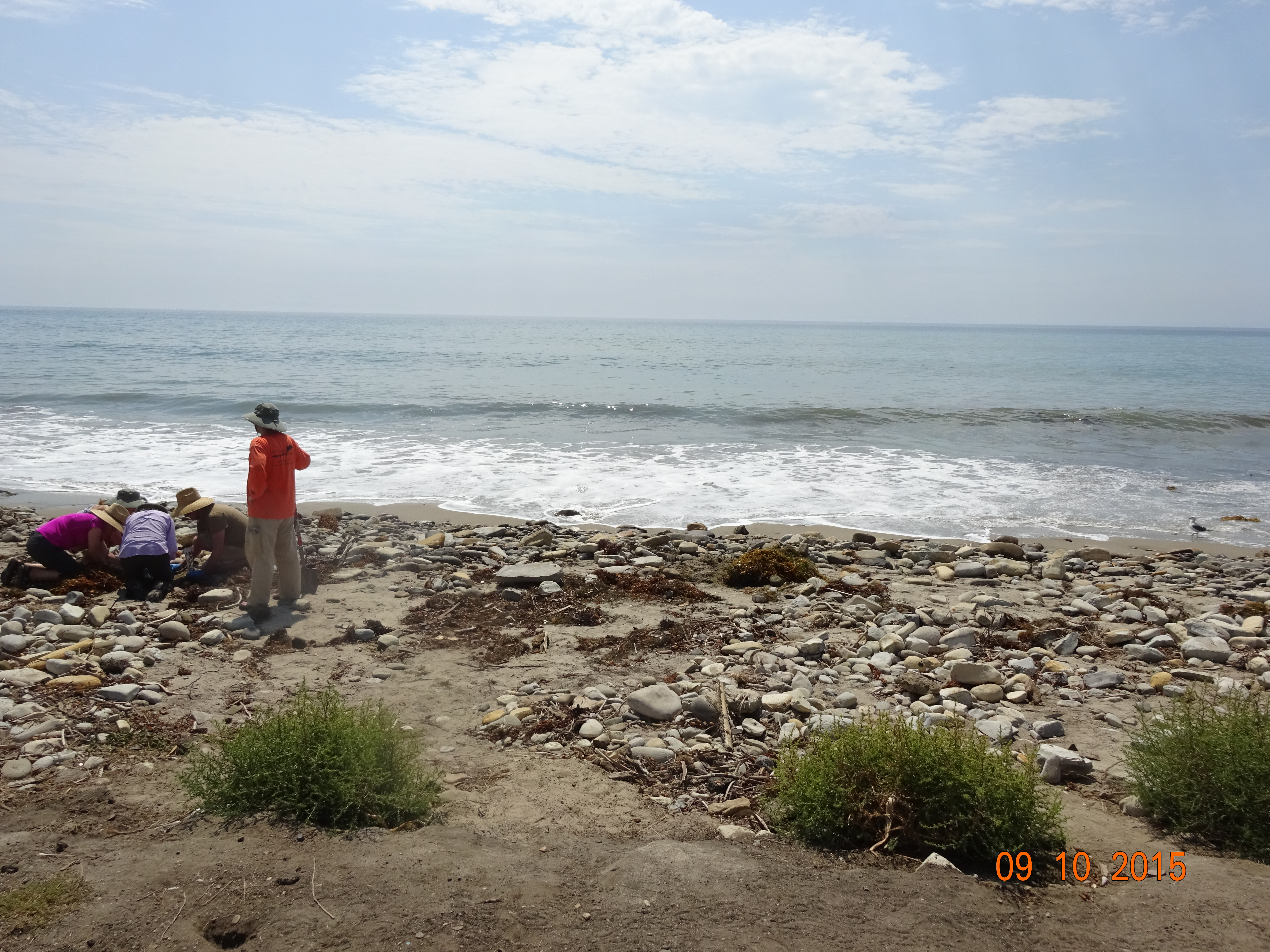 David Hubbard (UCSB), Jenny Marek (FWS), Carol Shestag (Stantec), and Jason Stango (Stantec) collecting talitrid amphipods, or beach hoppers, at Refugio State Beach as part of the Natural Resource Damage Assessment. Photo Credit: CDFW/OSPR.